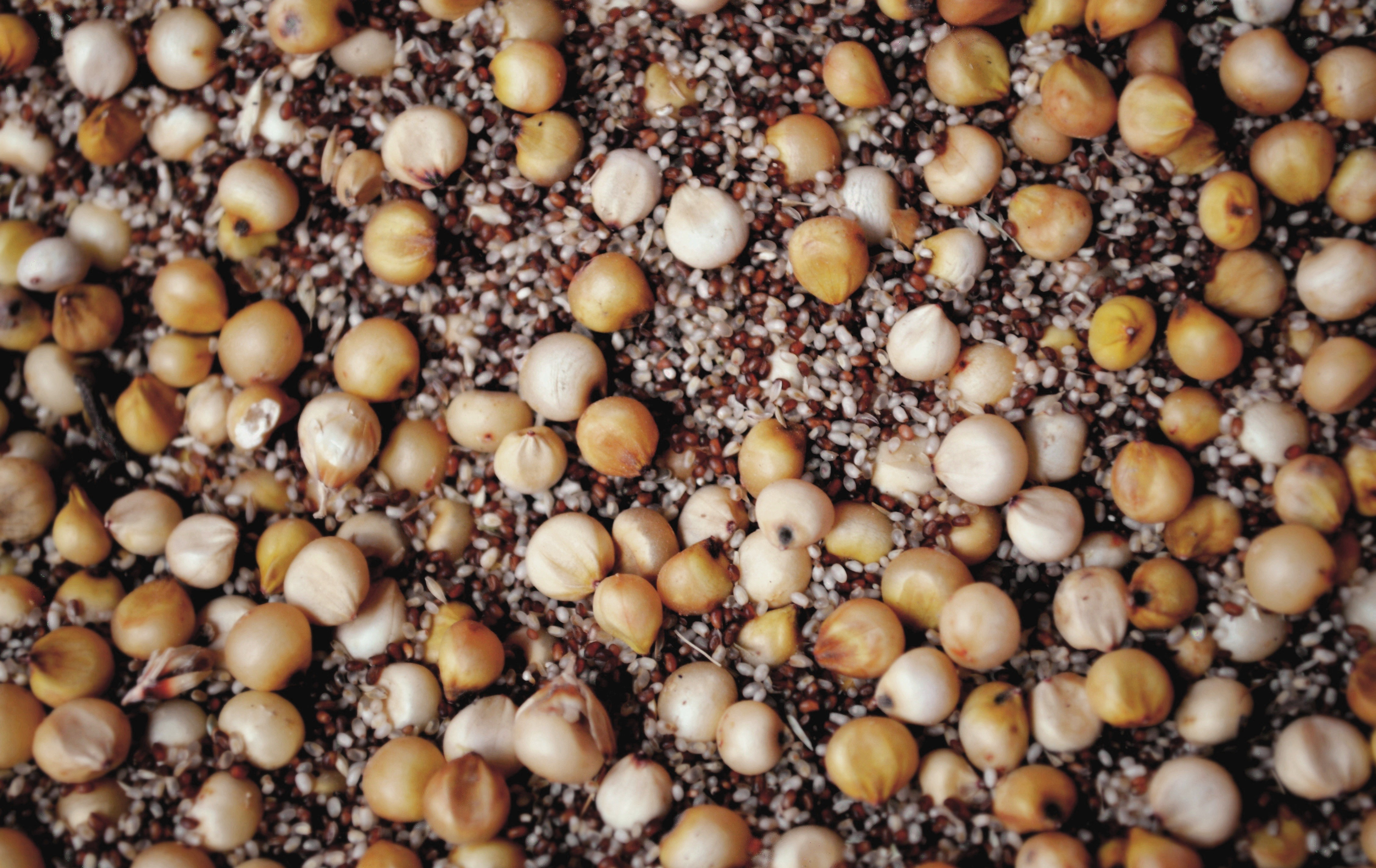 Many Ethiopian families prepare and drink 'Tella', a traditional beverage a bit similar to beer during holidays and other celebrations. This photograph is of the few ingredients, 'Mashella' and 'Teff' used during preparations. This is an image of food from Ethiopia